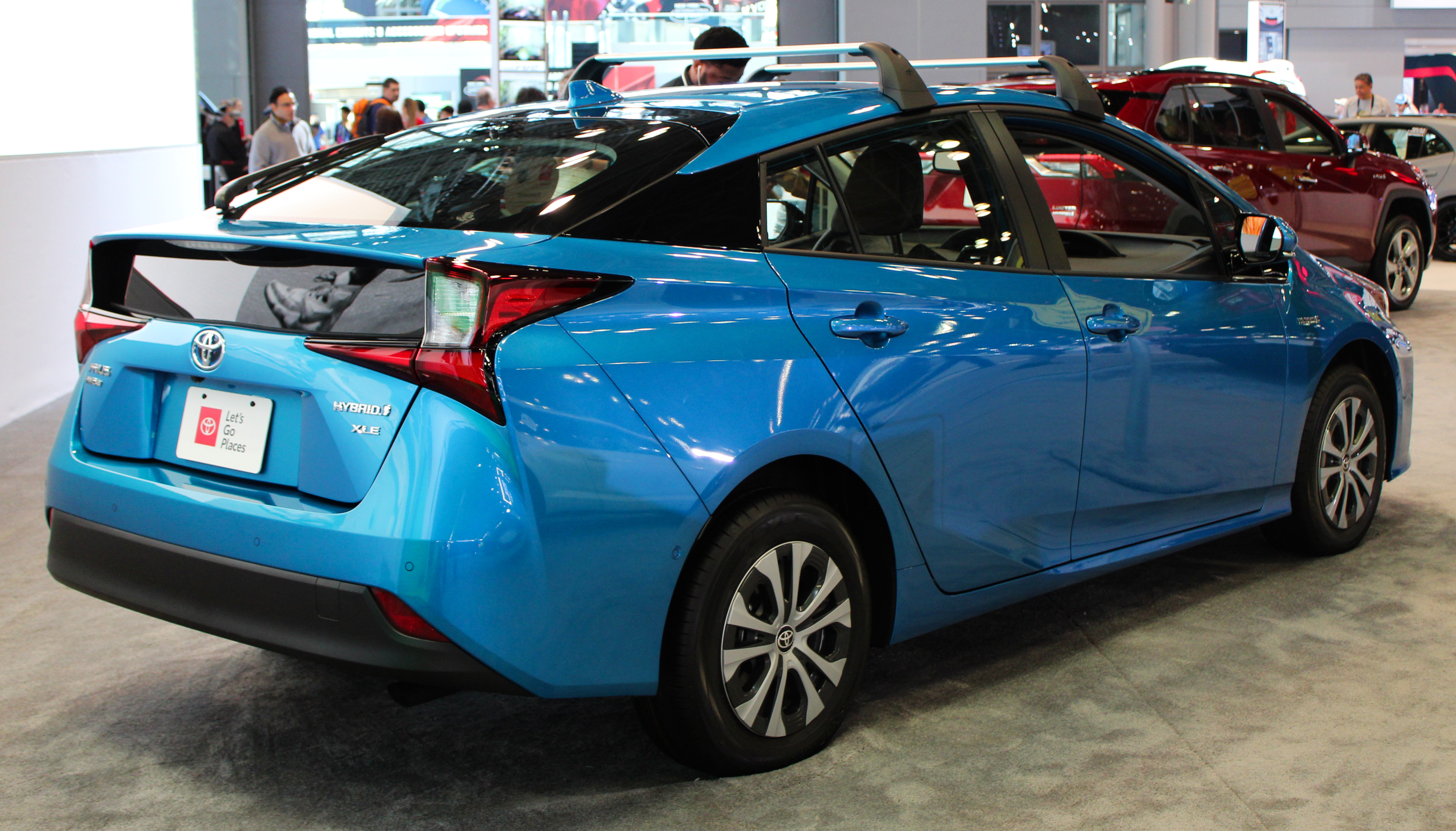 A 2019 Toyota Prius Hybrid AWD photographed during the 2019 New York International Auto Show, in Hudson Yards, Manhattan, NYC